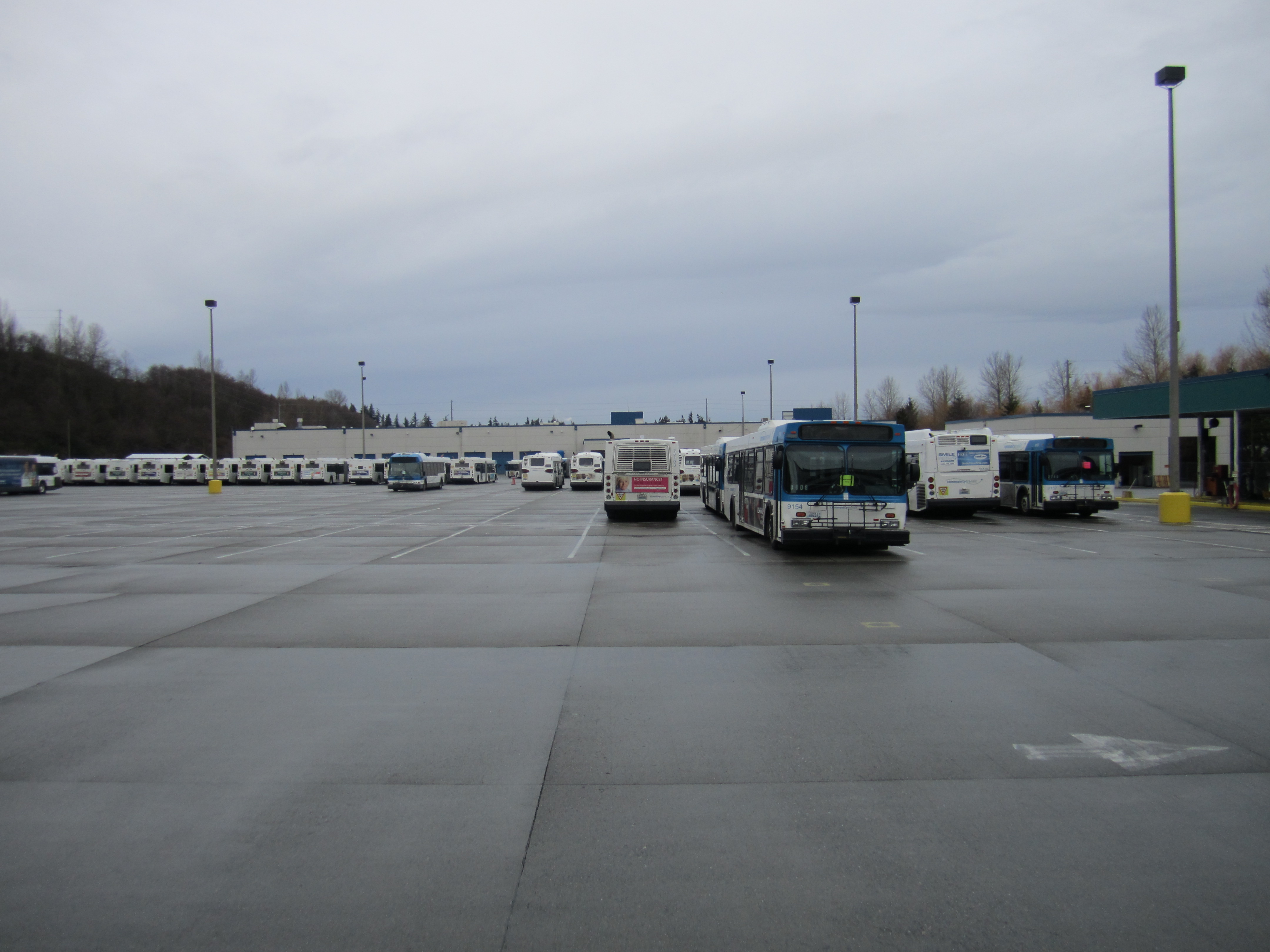 The Merrill Creek bus base in Everett, Washington, home to the headquarters of Community Transit.